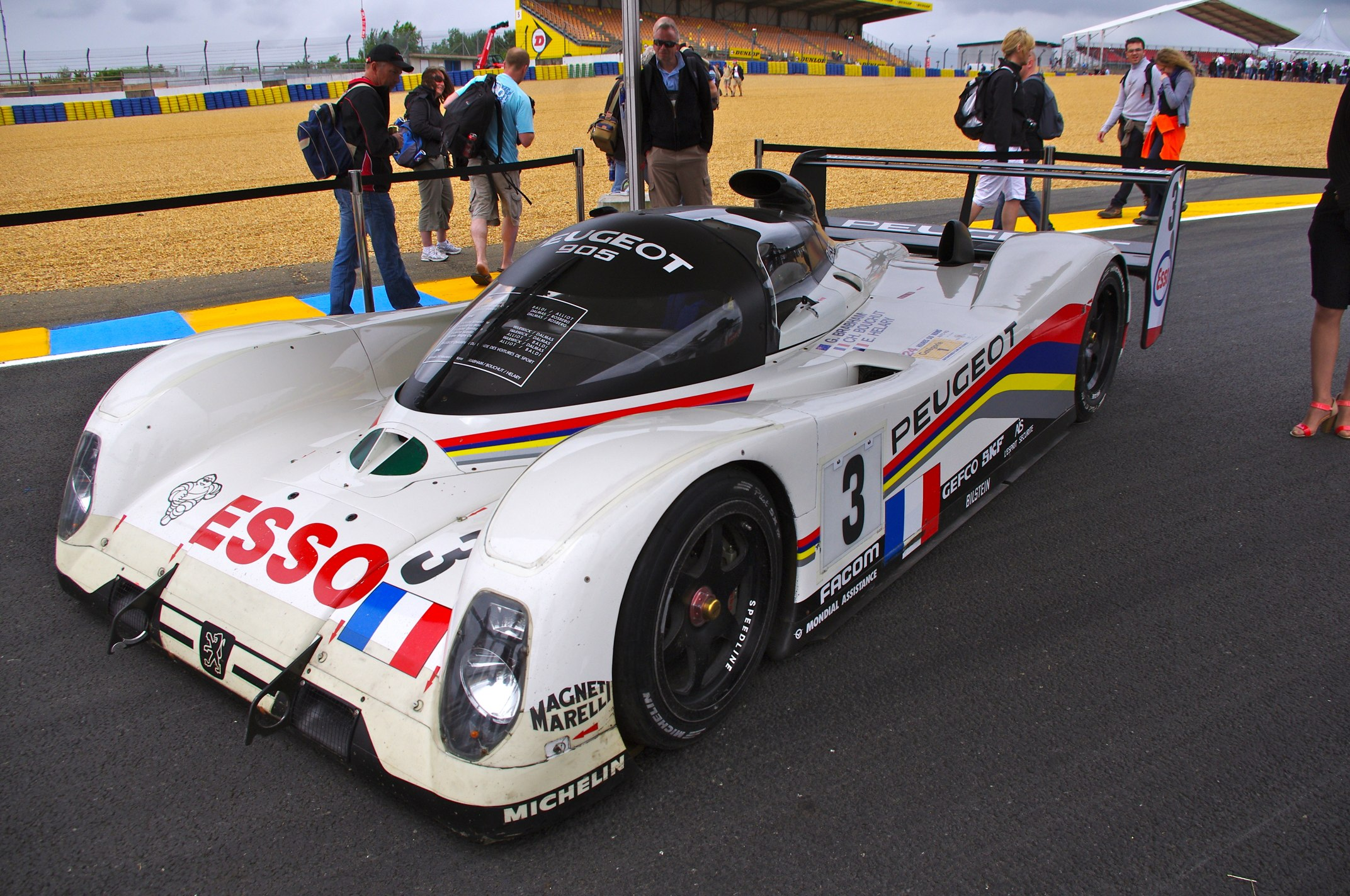 The Peugeot 905 in the pitlane at the 2013 24 Hours of Le Mans.